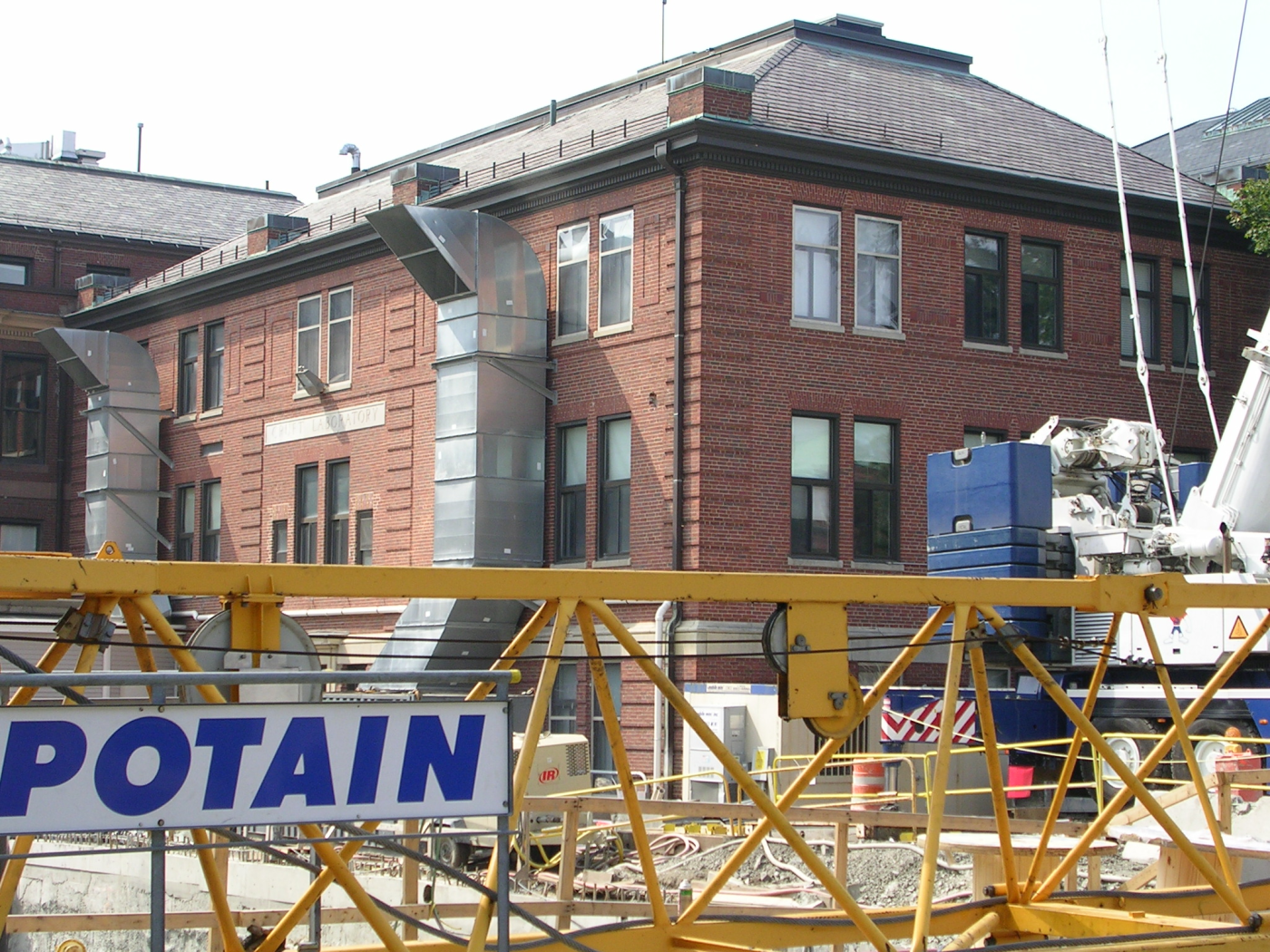 photo of Harvard Cruft Hall (Cruft Laboratory)